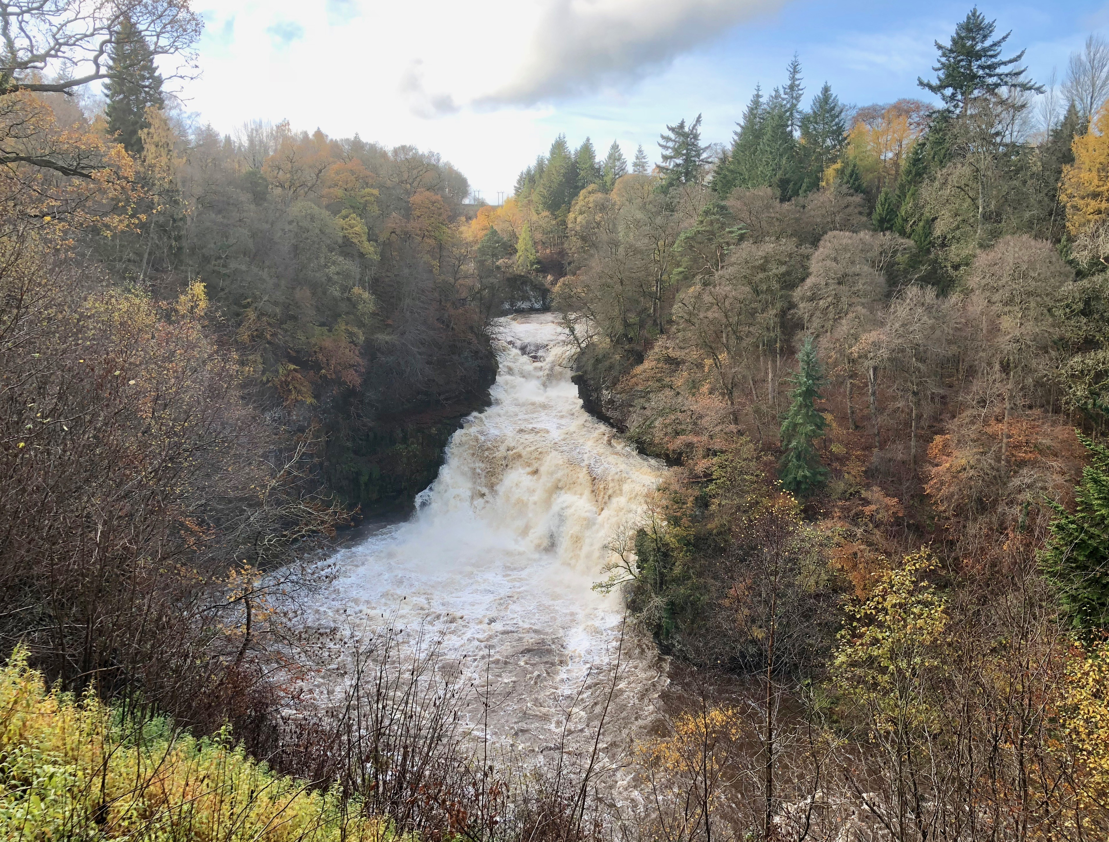 Corra Linn waterfall, the Falls of Clyde in full spate on 4 November 2018